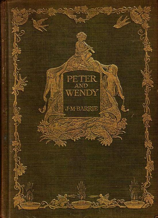 Front cover of J.M. Barrie novel "Peter and Wendy", published October 1911